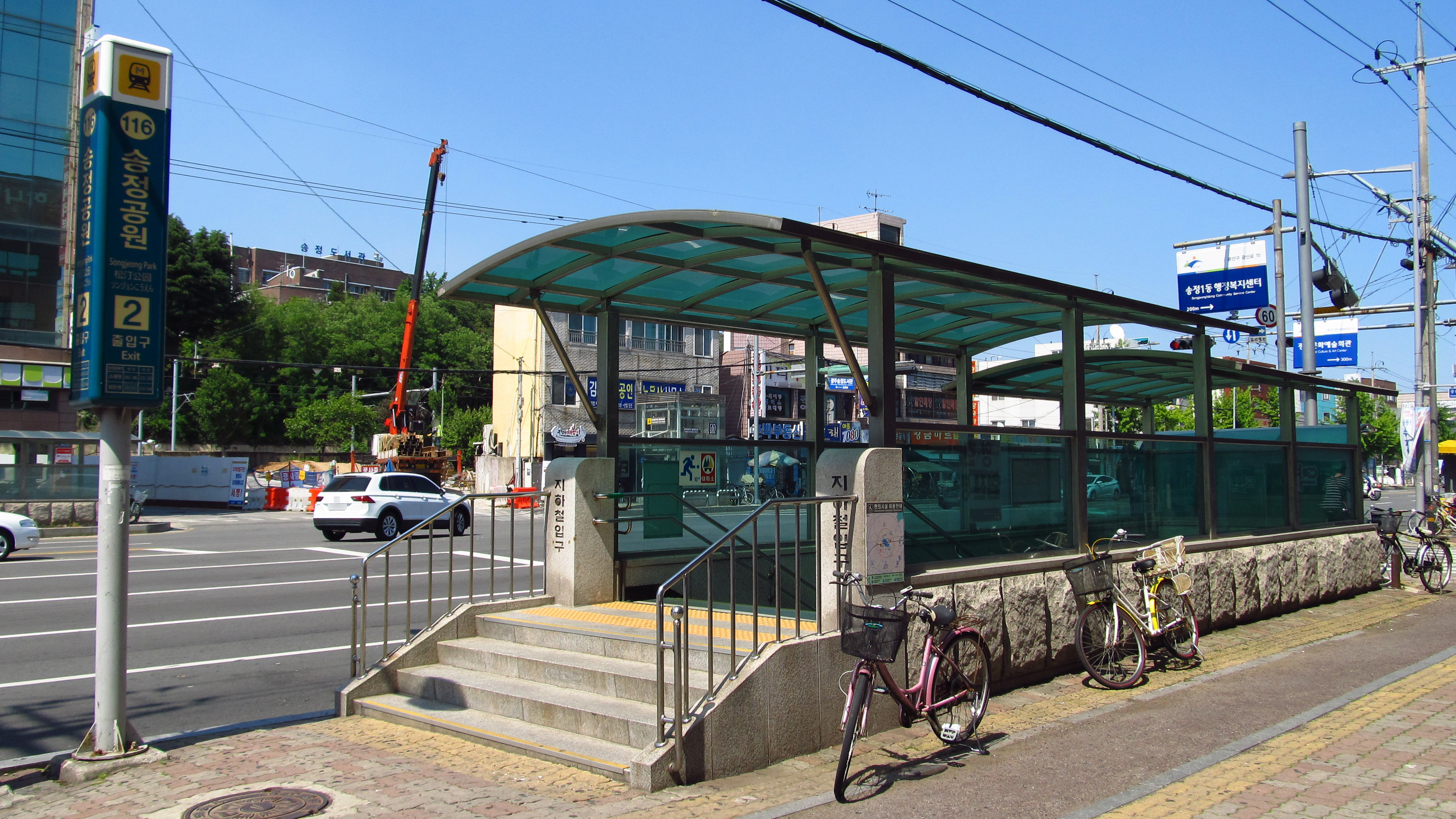 The no.2 entrance to Songjeong Park Station on Gwangju Metro Line 1 in Gwangsan-gu, Gwangju, Republic of Korea(South Korea)